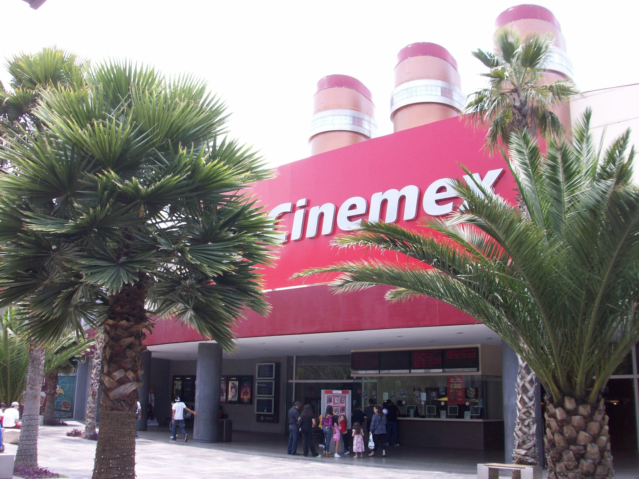 Cinemex, en Bazar Pericoapa.